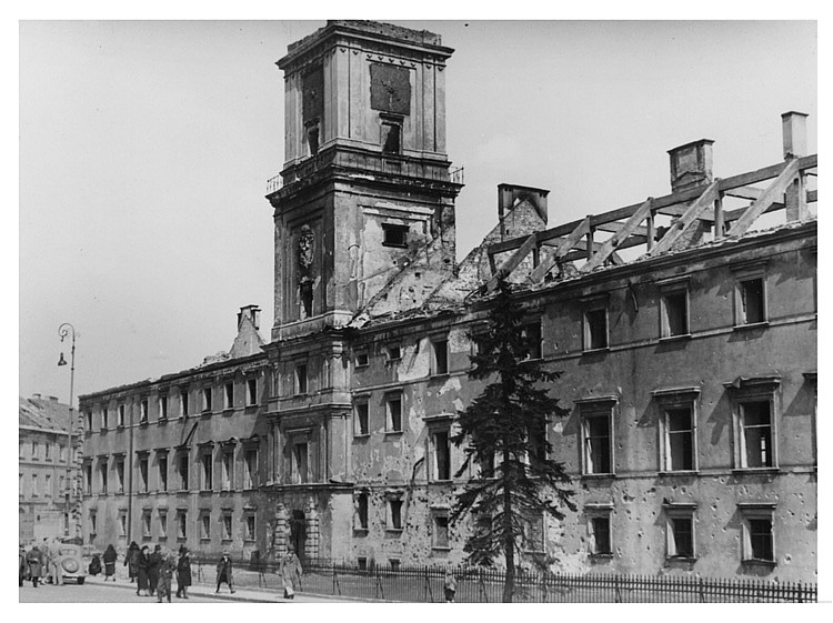 Burned-out Royal Castle in Warsaw. Photo taken after the Castle was burned by Nazis in September 1939 but before Warsaw Uprising in August 1944 when the Castle were totally destroved.